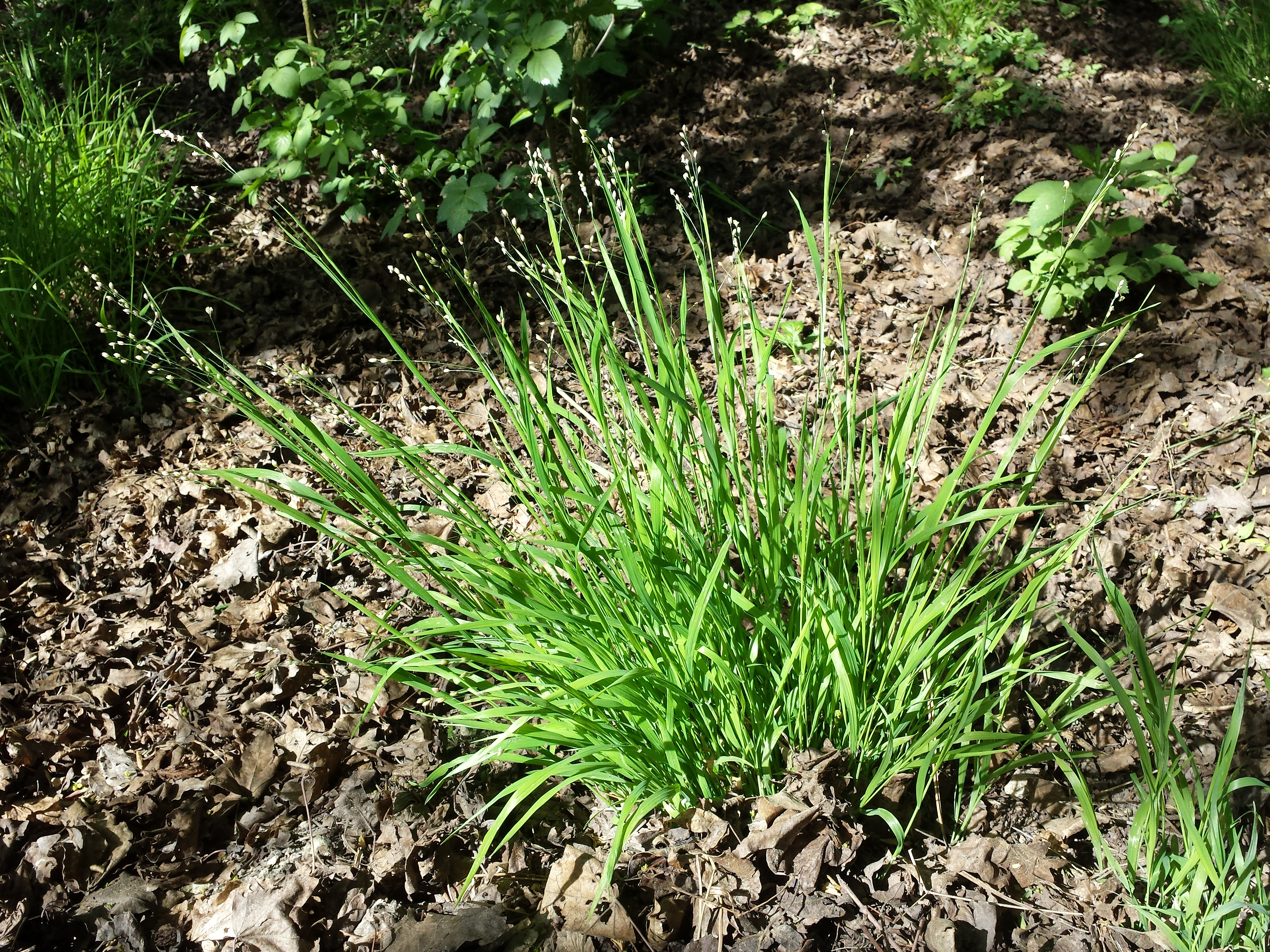 Habitus Taxonym: Melica uniflora ss Fischer et al. EfÖLS 2008 ISBN 978-3-85474-187-9 Location: Simperlberg next to Altmanns, district Mistelbach, Lower Austria - ca. 300 m a.s.l. Habitat: dry wood